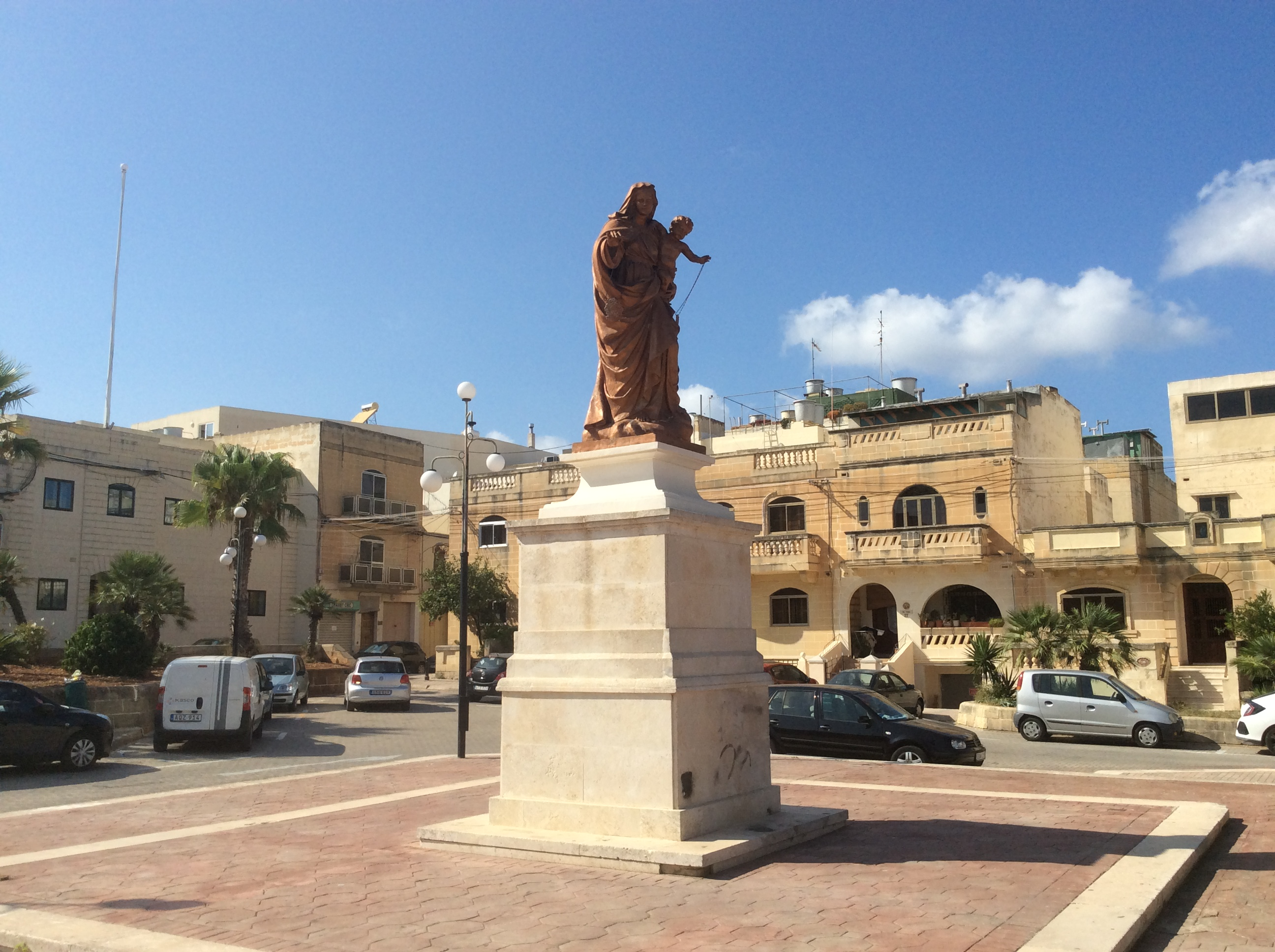 Buildings and structures in Fgura